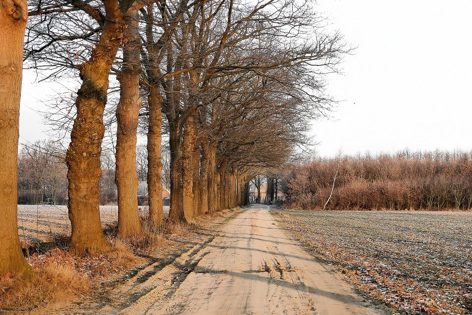 Unpaved road in the Heidenhoek near Zelhem, Bronckhorst, The Netherlands